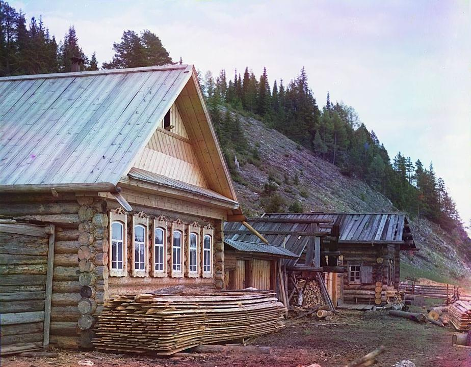 Izba (Russian peasant hut/farm) in the village Martianova (now Martyanovo, Sverdlovsk Oblast [1] on Chusovaya River)